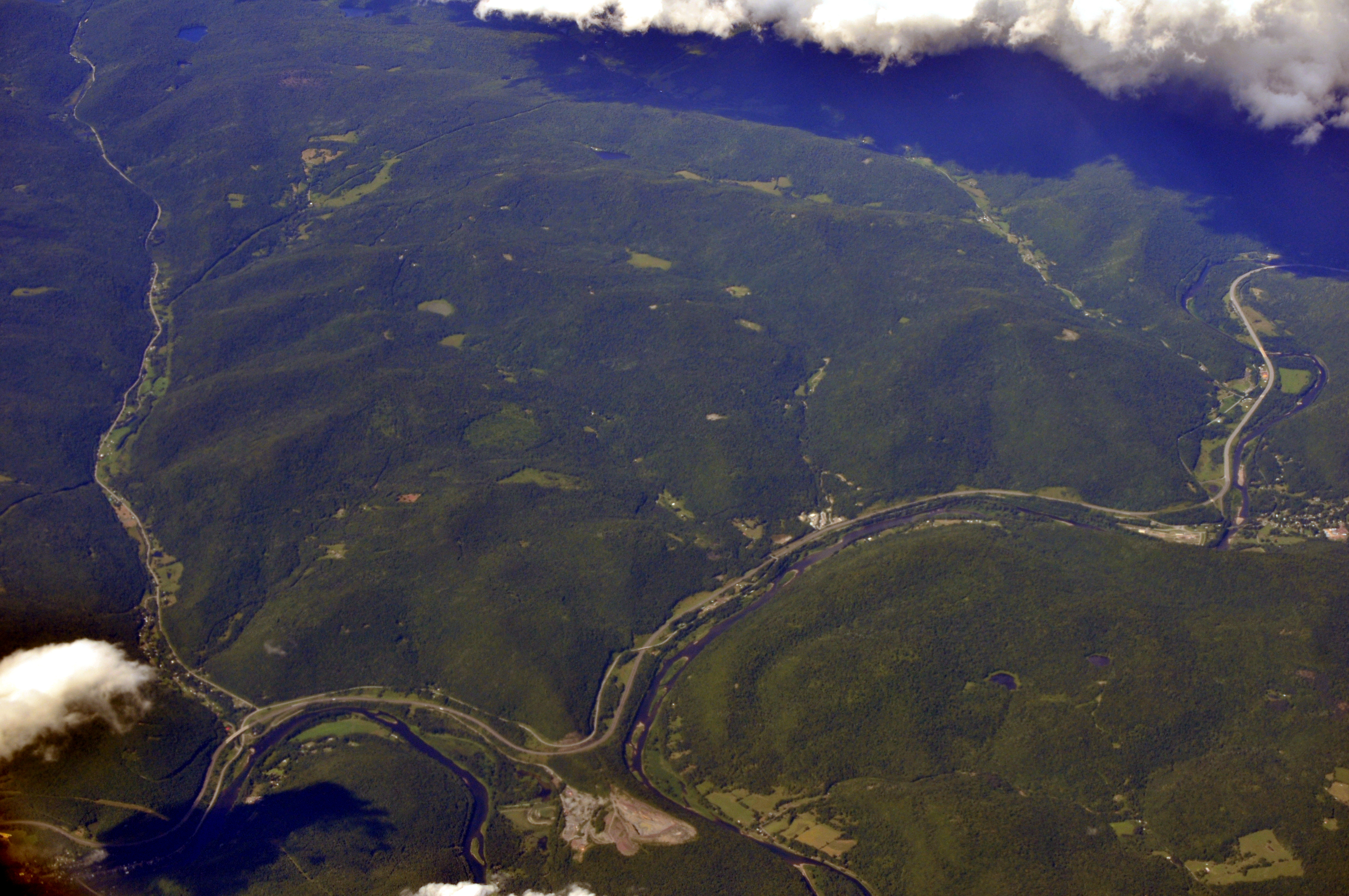 Aerial view of New York State Route 17 about 1.5 miles east off Hancock, Delaware County, New York from SSW. Smaller road running toward top of image is New York State Route 268.